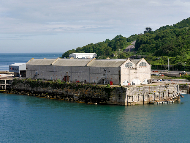 Storehouses at Portland Dockyard